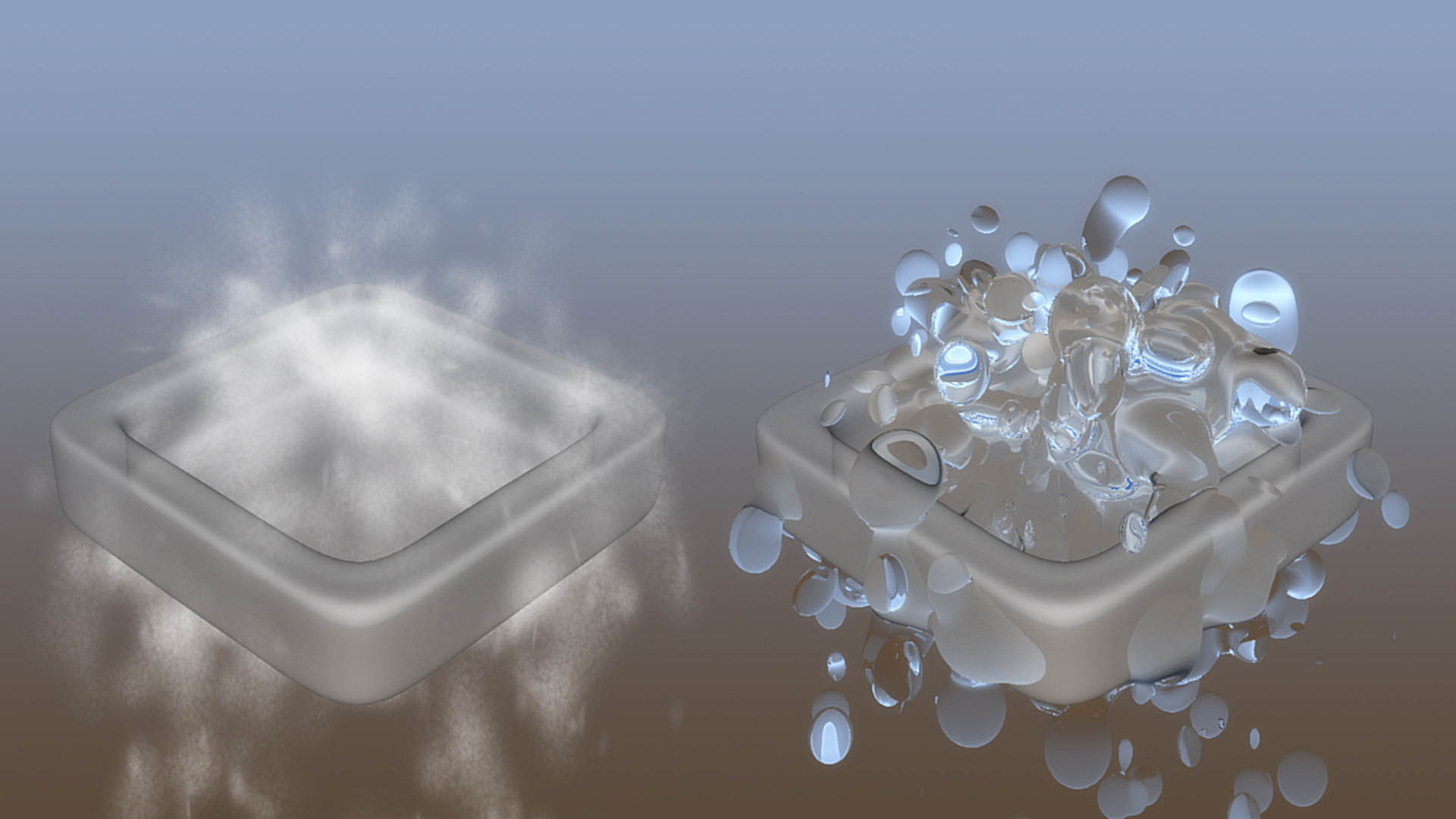 Particle system rendered with billboard and metaballs. Made with Lightwave 9.0.